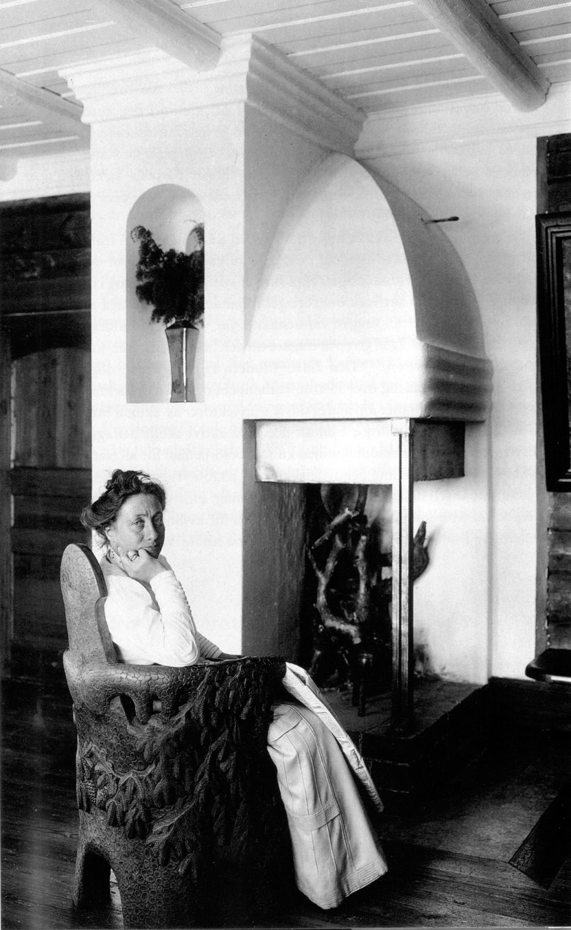 Eva Bonnier, most probably in her summer villa in Dalarö